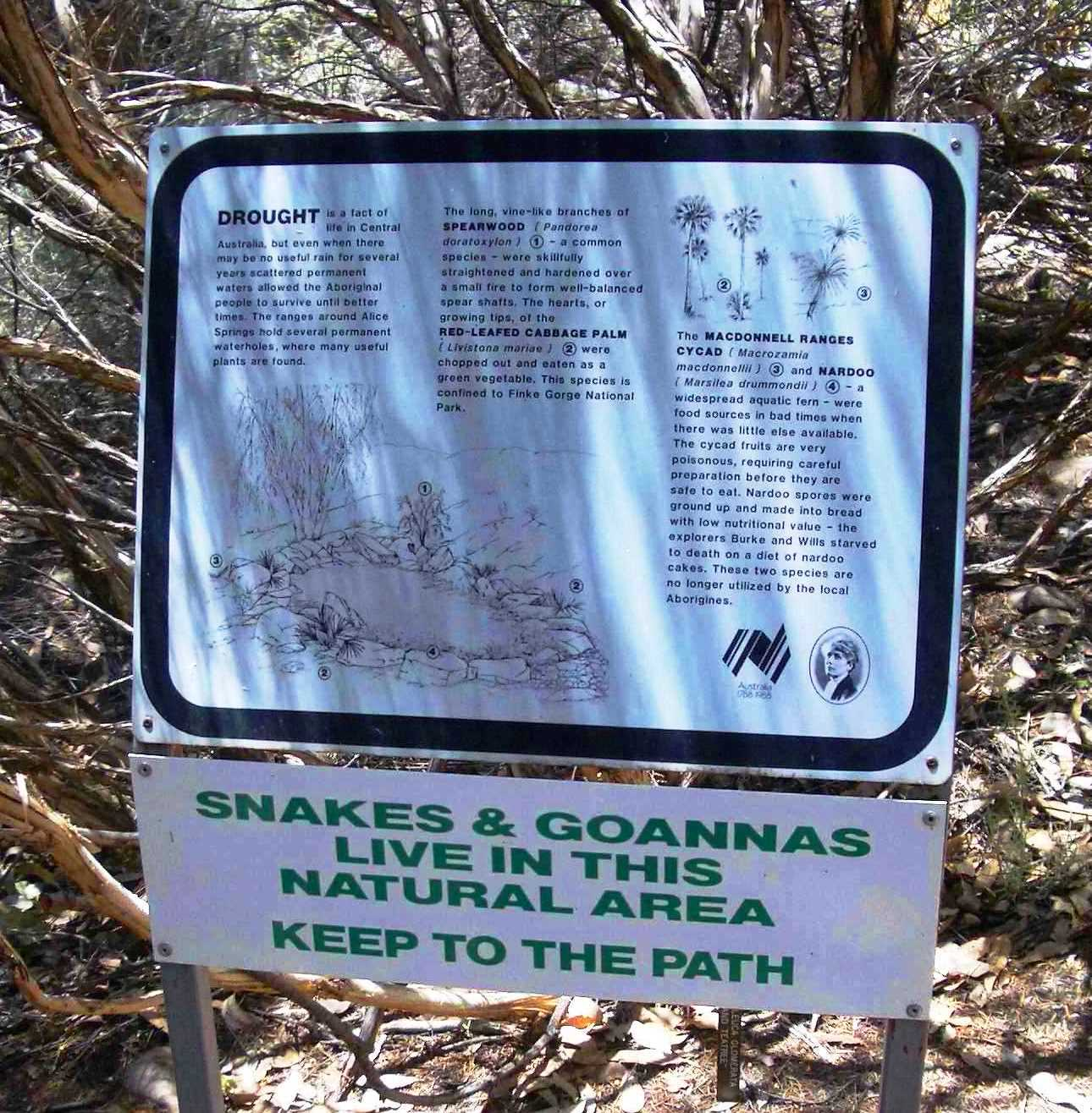 I took this photo on a trip to Alice Springs in 2005.